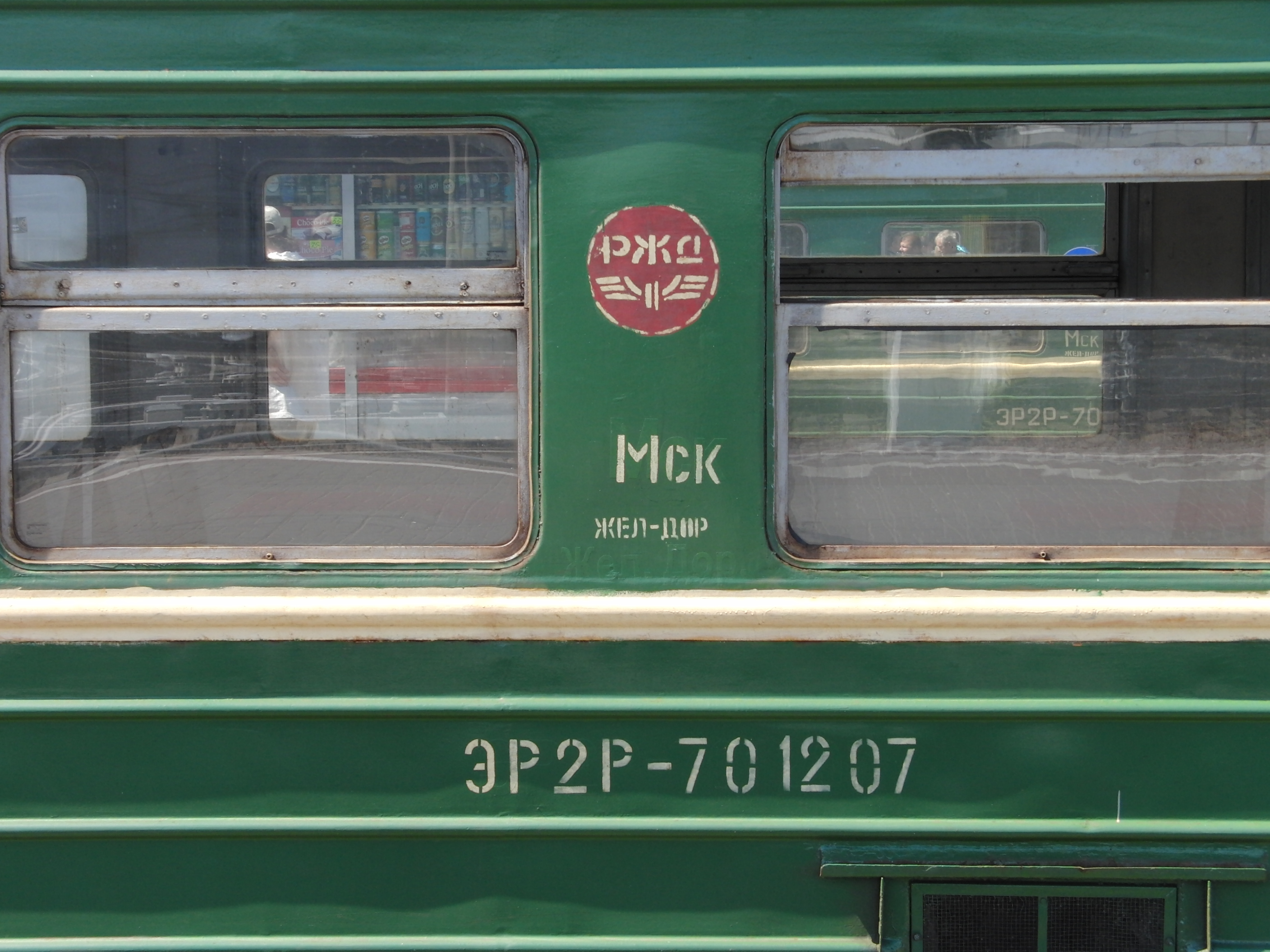 Kursky rail terminal, elektrichka (regional train) to Zheleznodorozhny